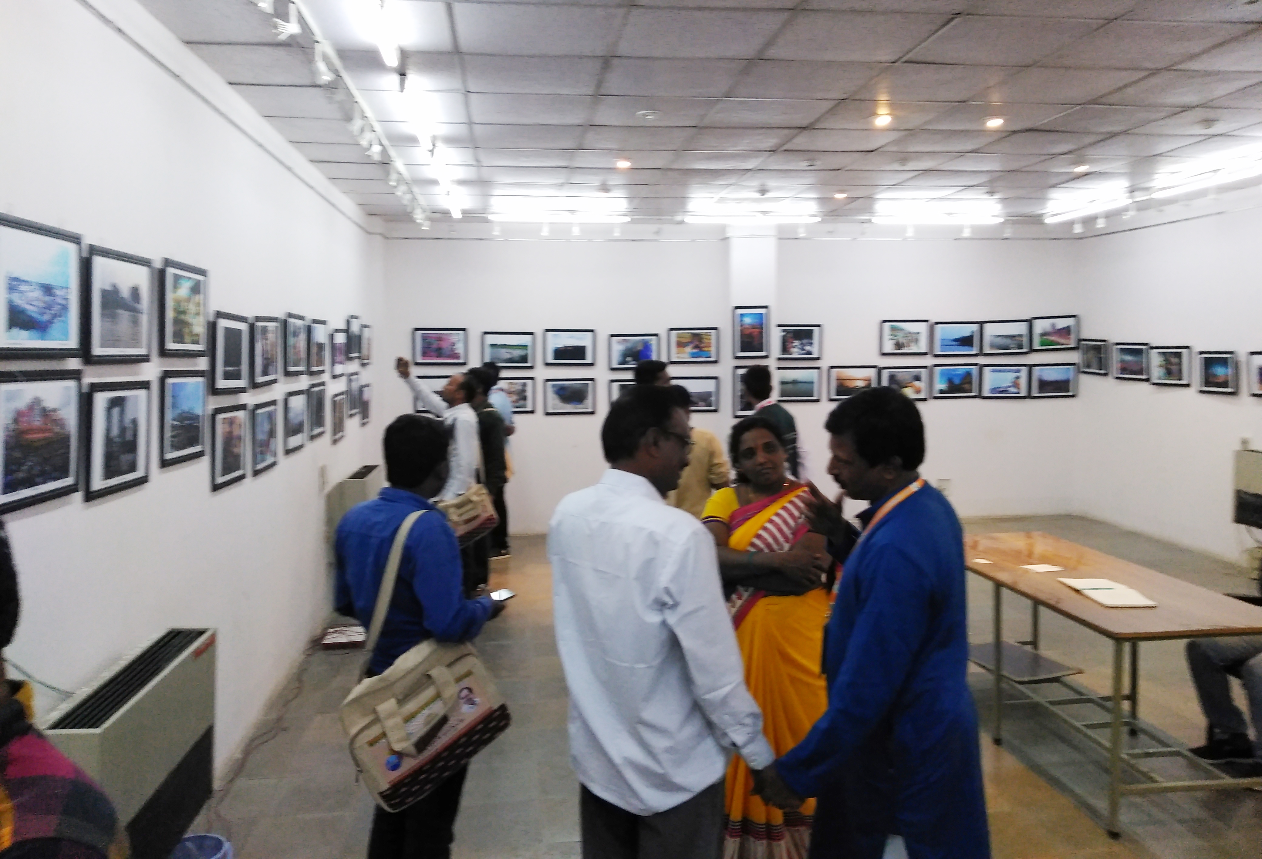 తెలుగు ప్రపంచ మహాసభల వద్ద దృశ్యాలు,వ్యక్తులు,సమావేశాలు